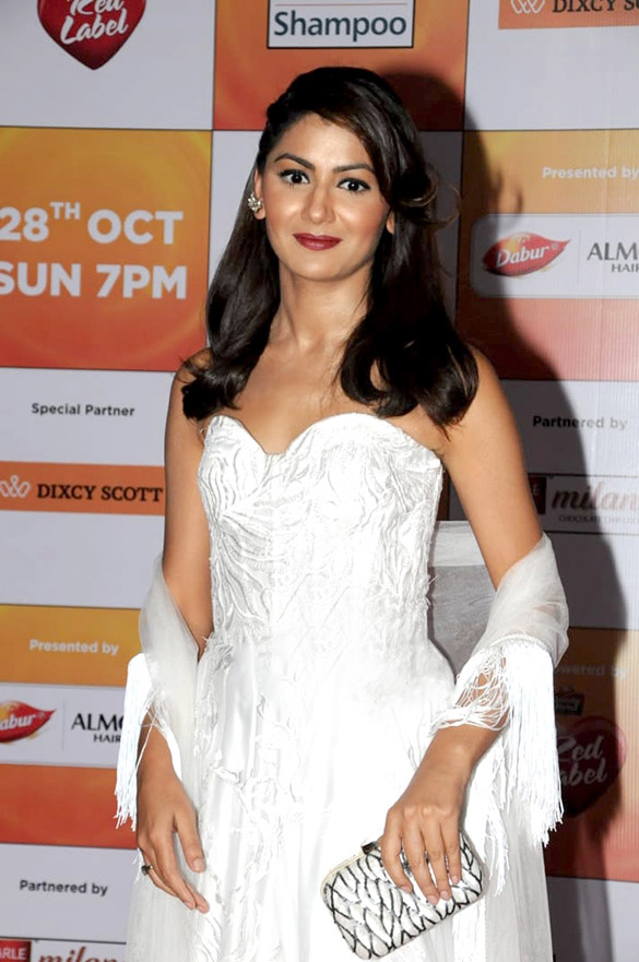 Sriti Jha zt Zee-Rishtey-Awards 2018